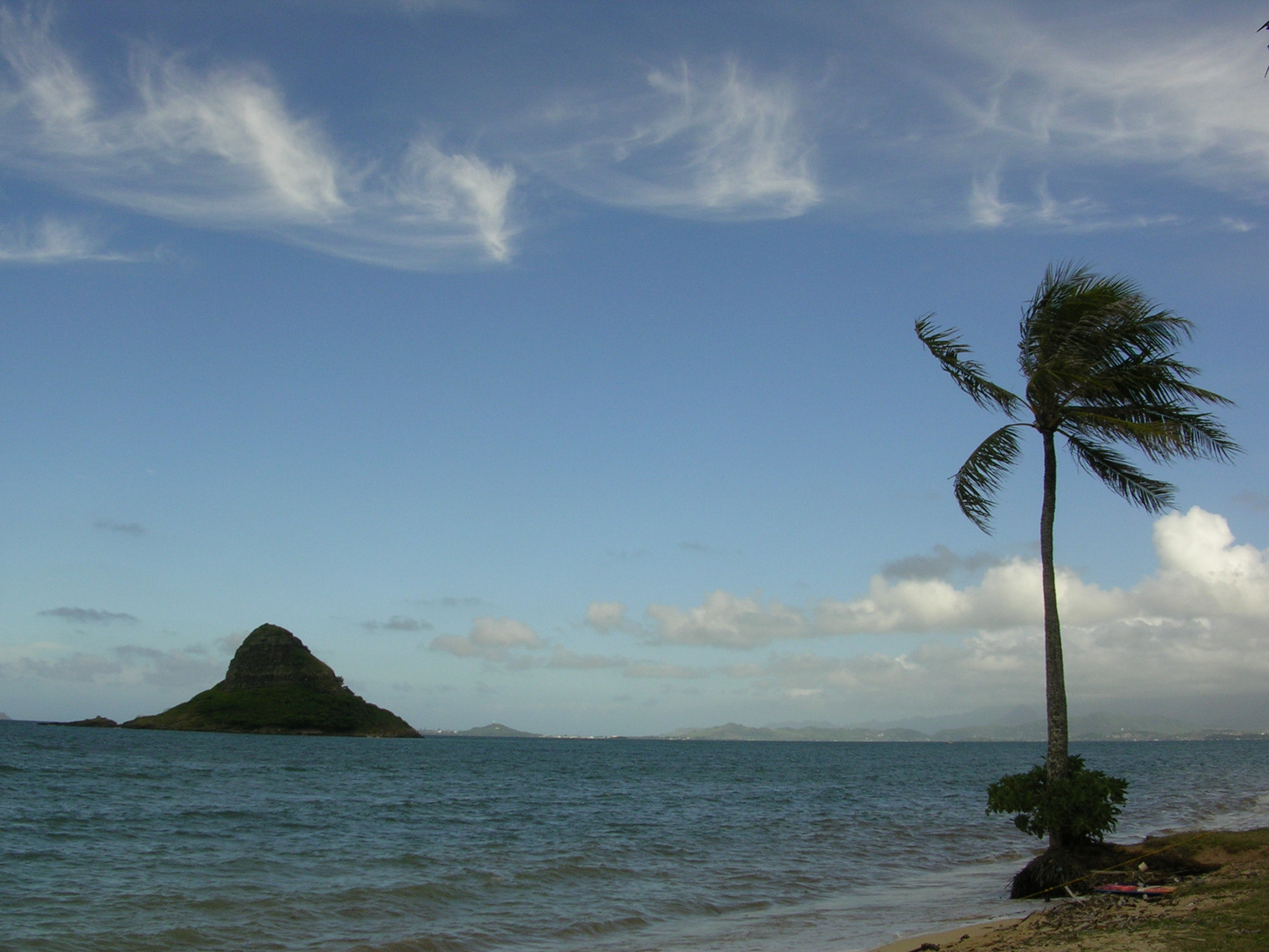 Chinaman's Hat - Mokoliʻi island of O'ahu Photo by Caracas1830